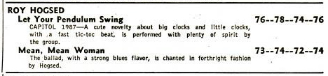 Roy Hogsed review. My scan from from The Billboard magazine's "Record Reviews" section.